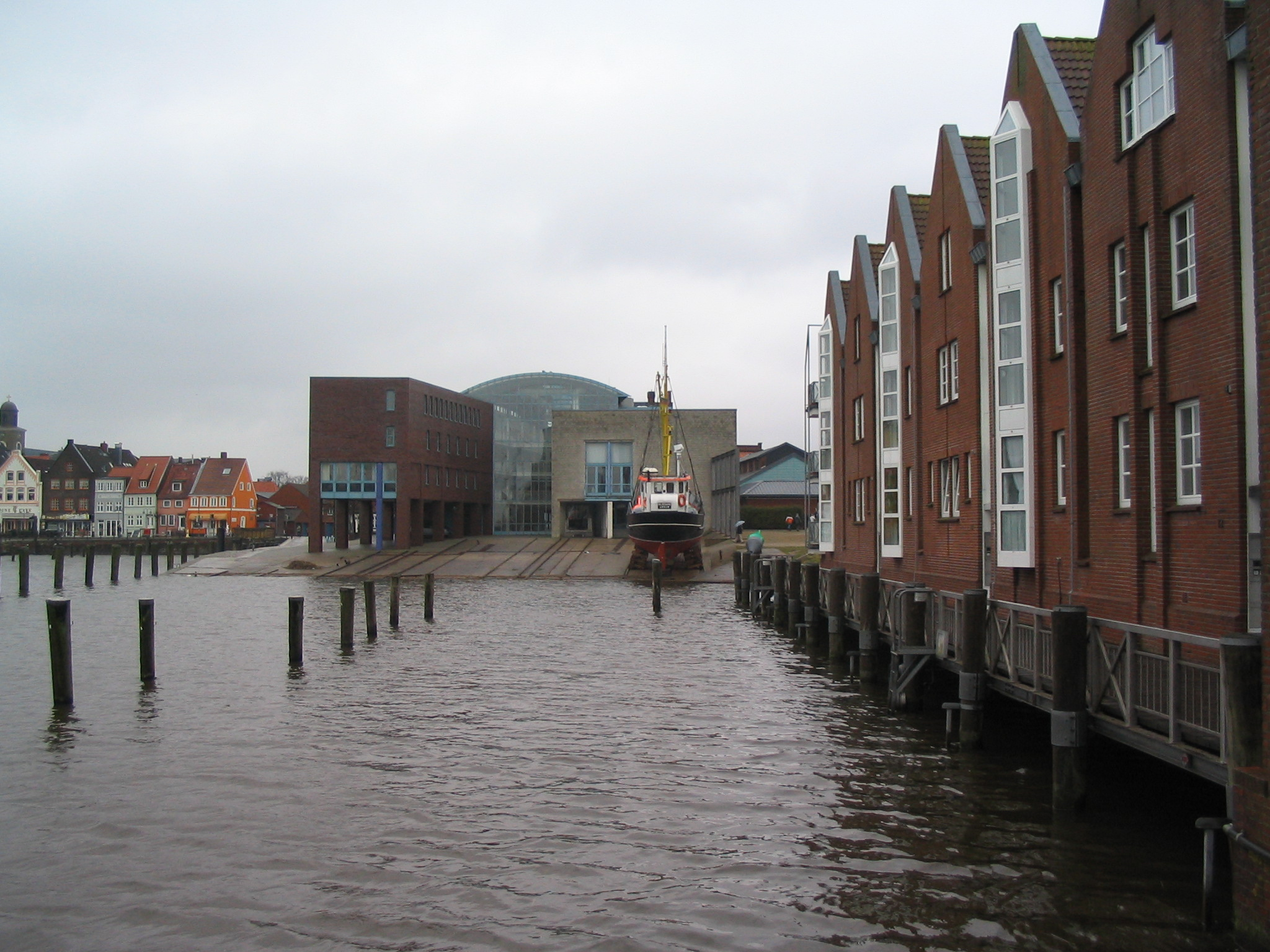 Husum, Nordfriesland City Hall